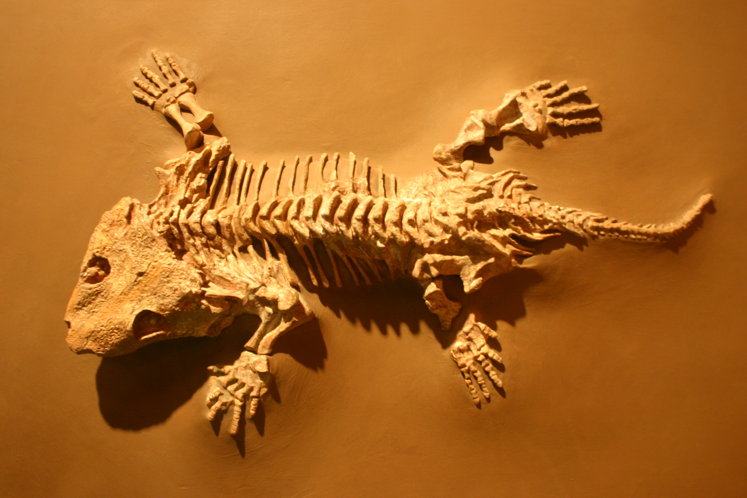 Seymouria